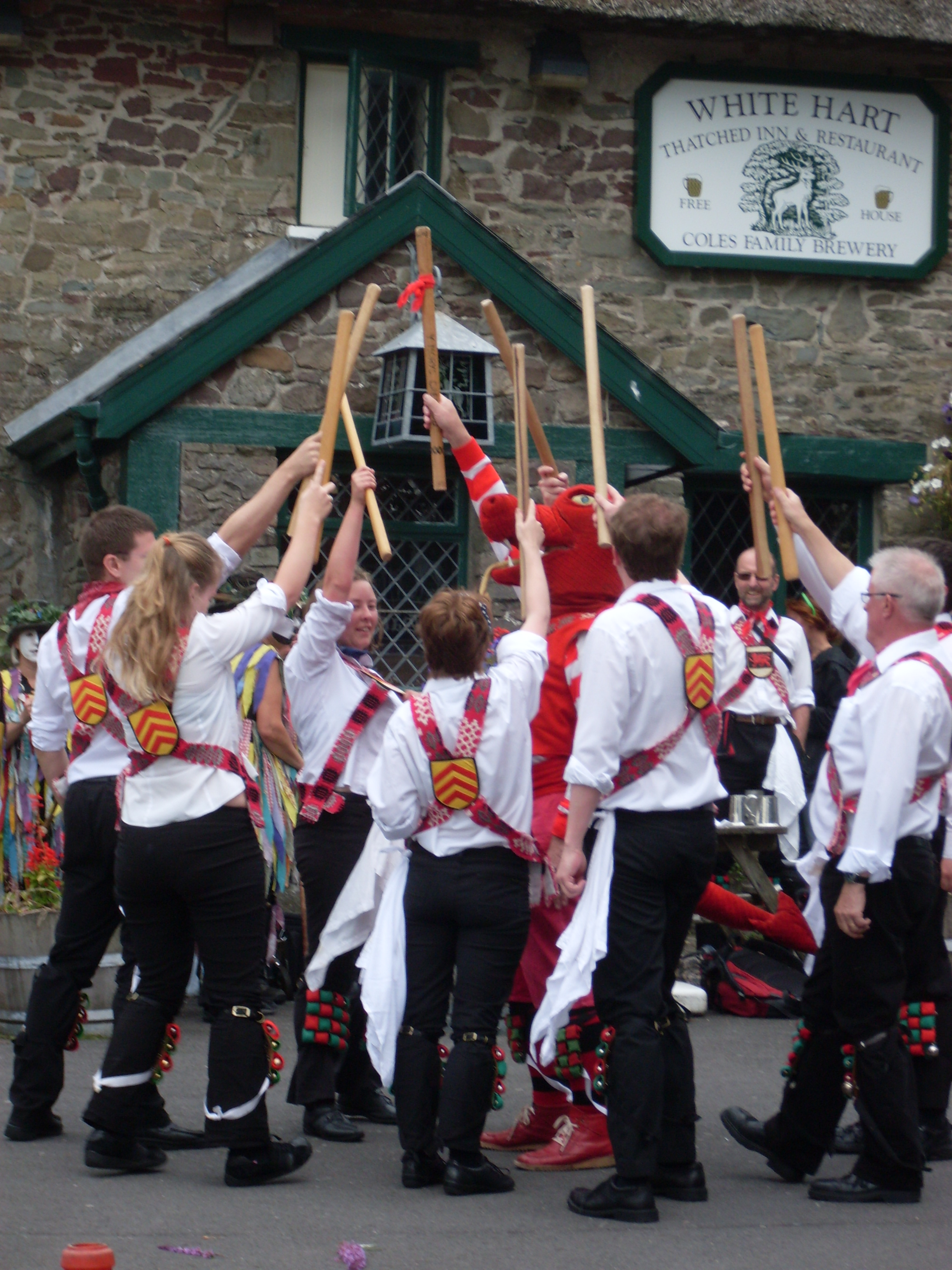 Cardiff Morris, and their mascot Idris the dragon, dance a morris dance from the Nantgarw tradition.